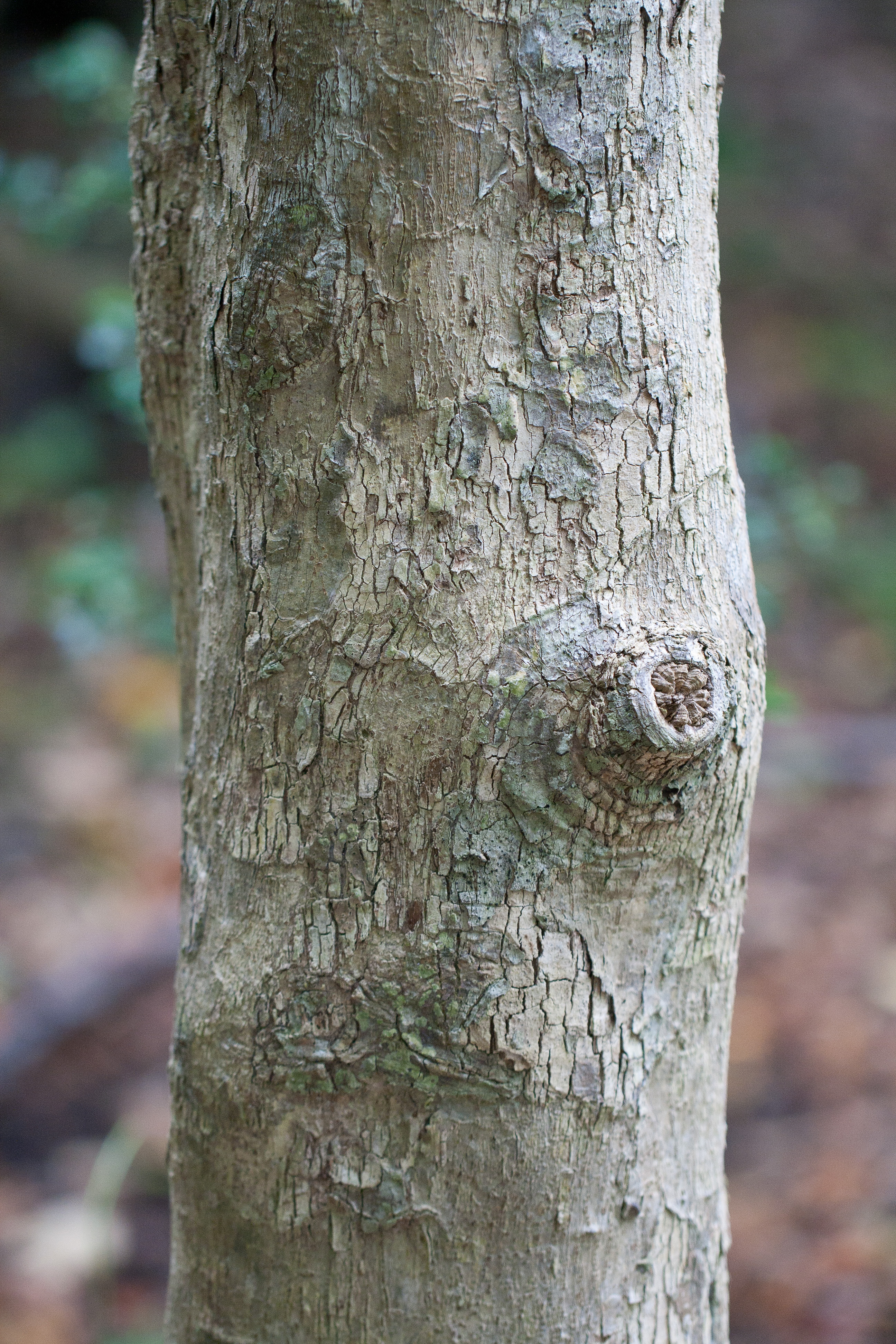 Drypetes deplanchei affinis in Lord Howe Island Botanic Garden